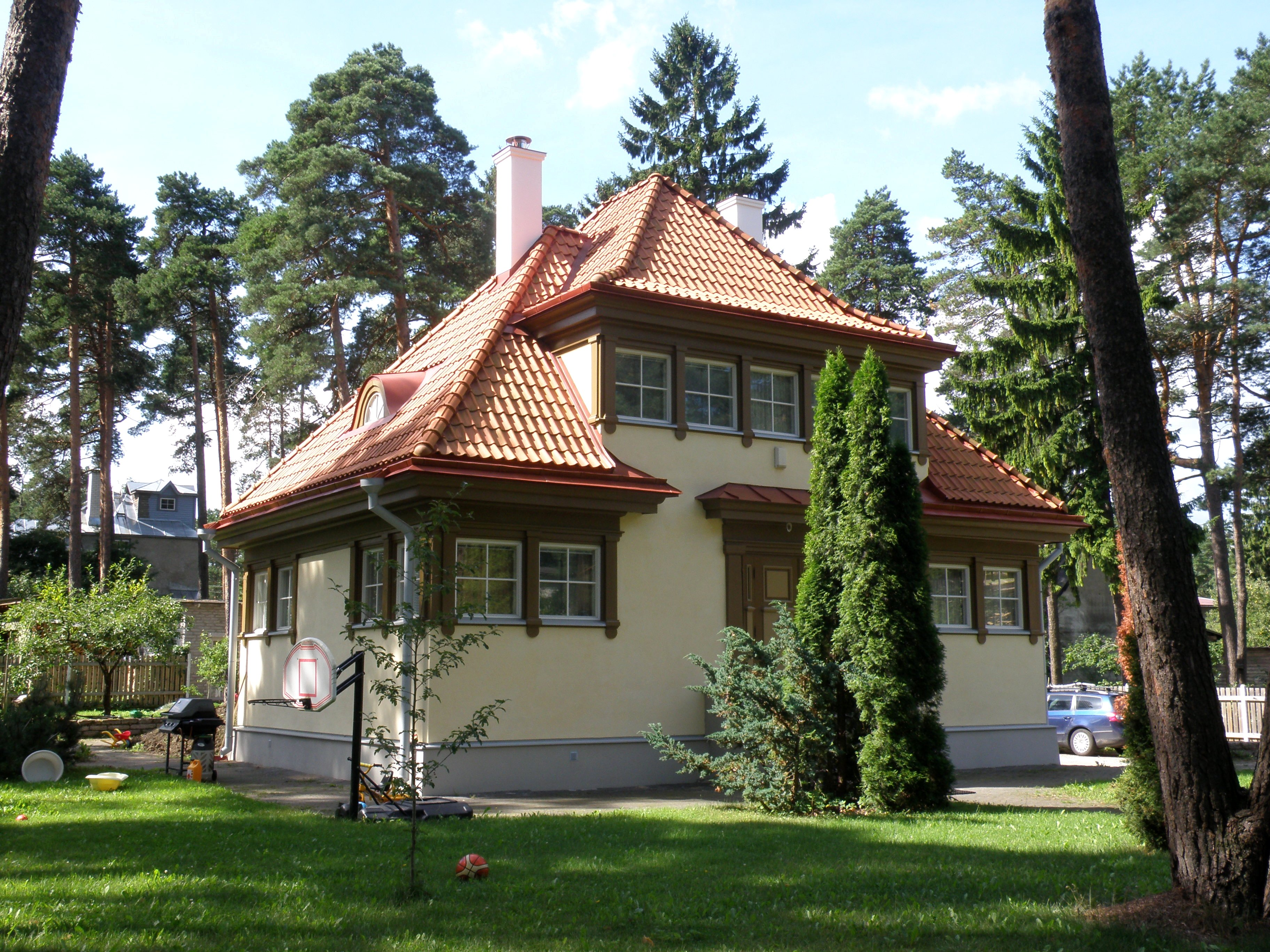 Seene 8